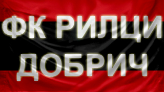 Flag of FC Rilci Dobrich